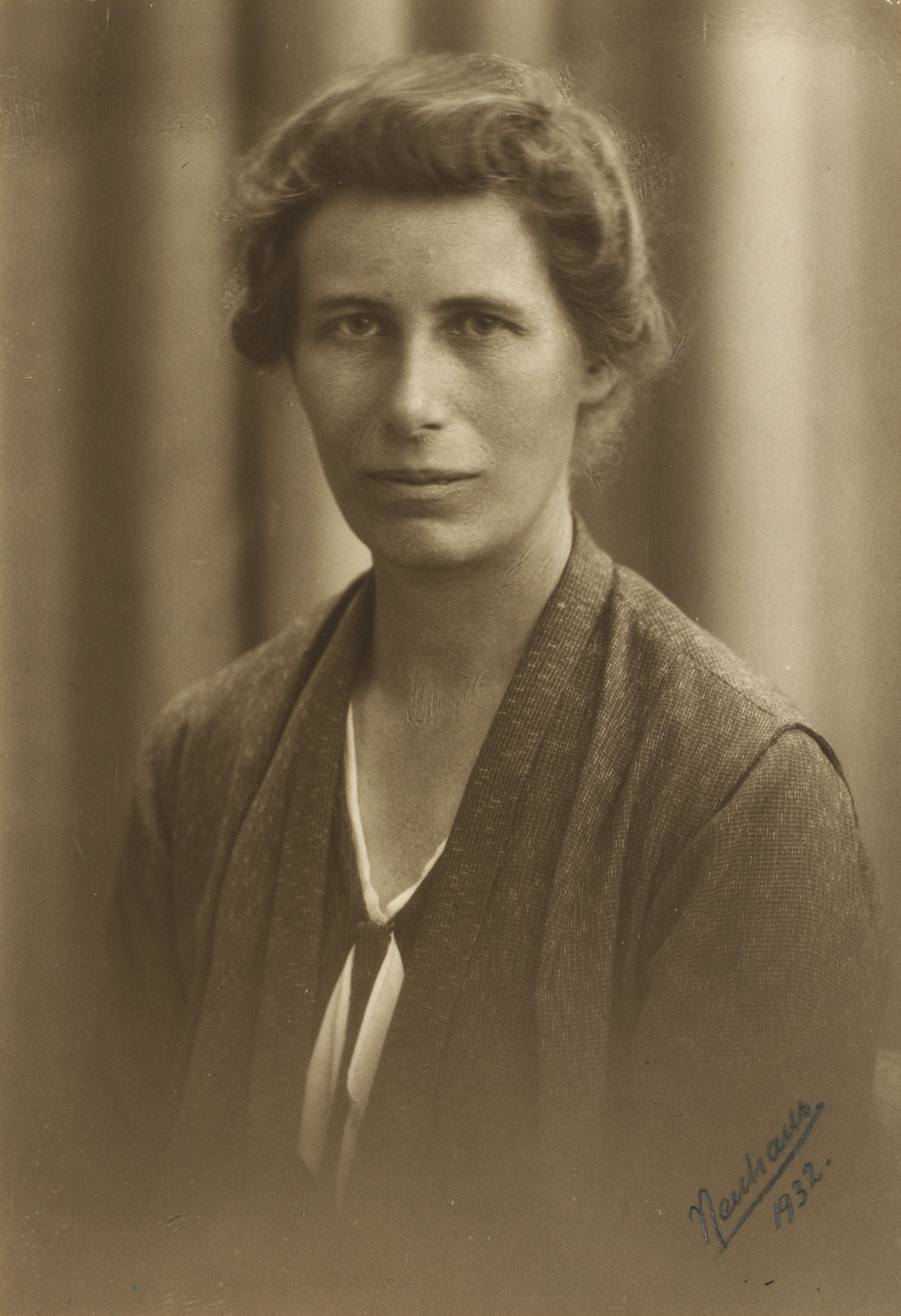 Lehmann in 1932. Image courtesy The Royal Library, National Libary of Denmark and University of Copenhagen University Library, under a Creative Commons License.